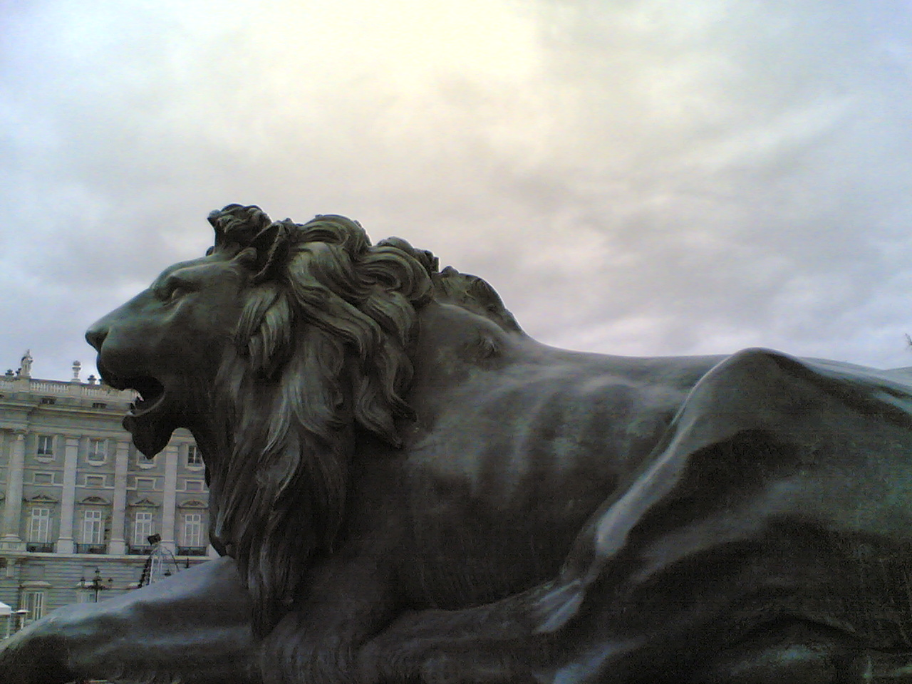 Bronze lion. Detail of the monument to Philip IV of Spain at the Plaza de Oriente in Madrid (Spain), inaugurated in 1843.